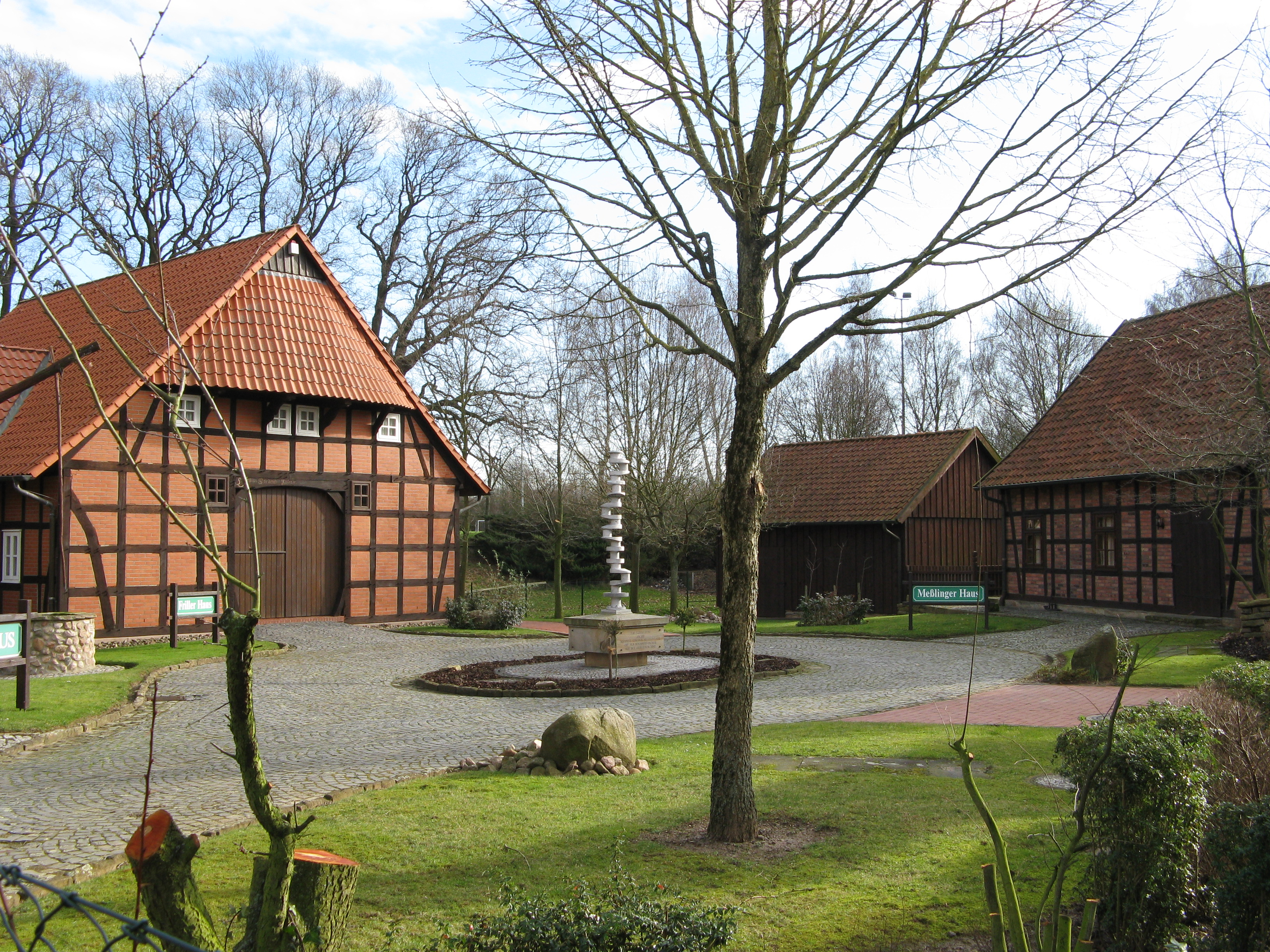 Herring fishery museum in Petershagen, District of Minden-Lübbecke, North Rhine-Westphalia, Germany.